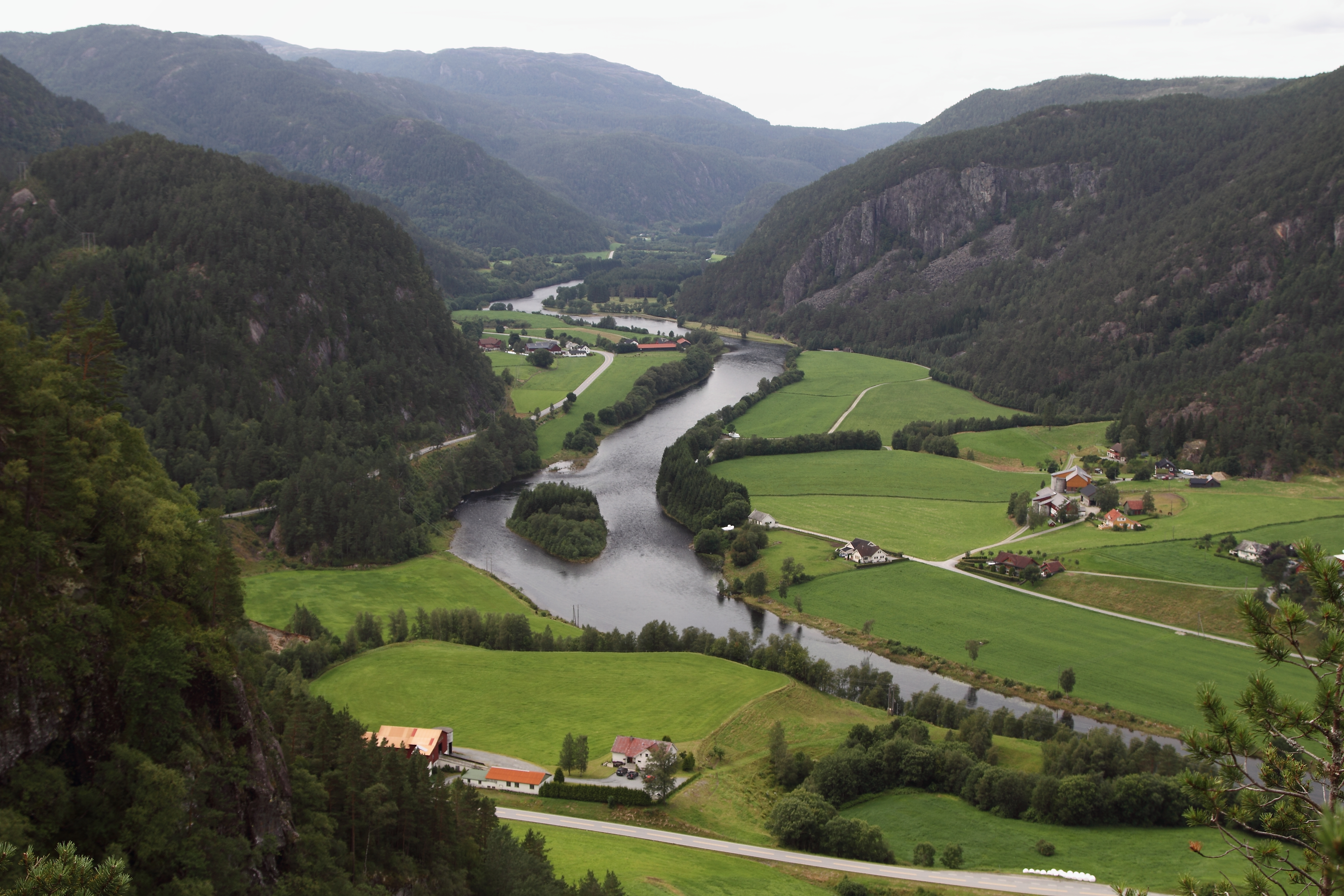 The valley Suldal in Rogaland, Norway. Towards Sand from Herabakka.